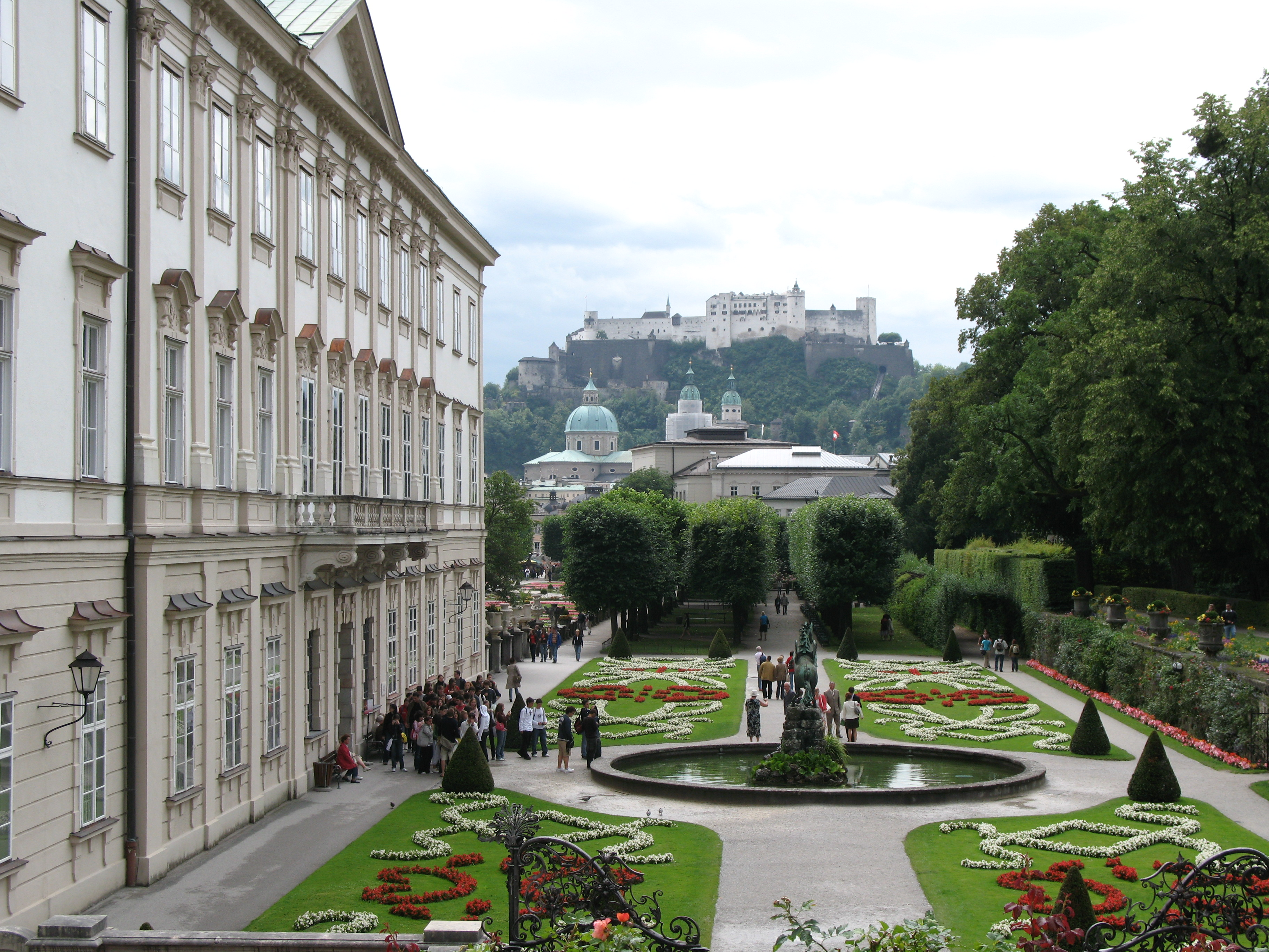 Austria, Salzburg, Mirabell Palace